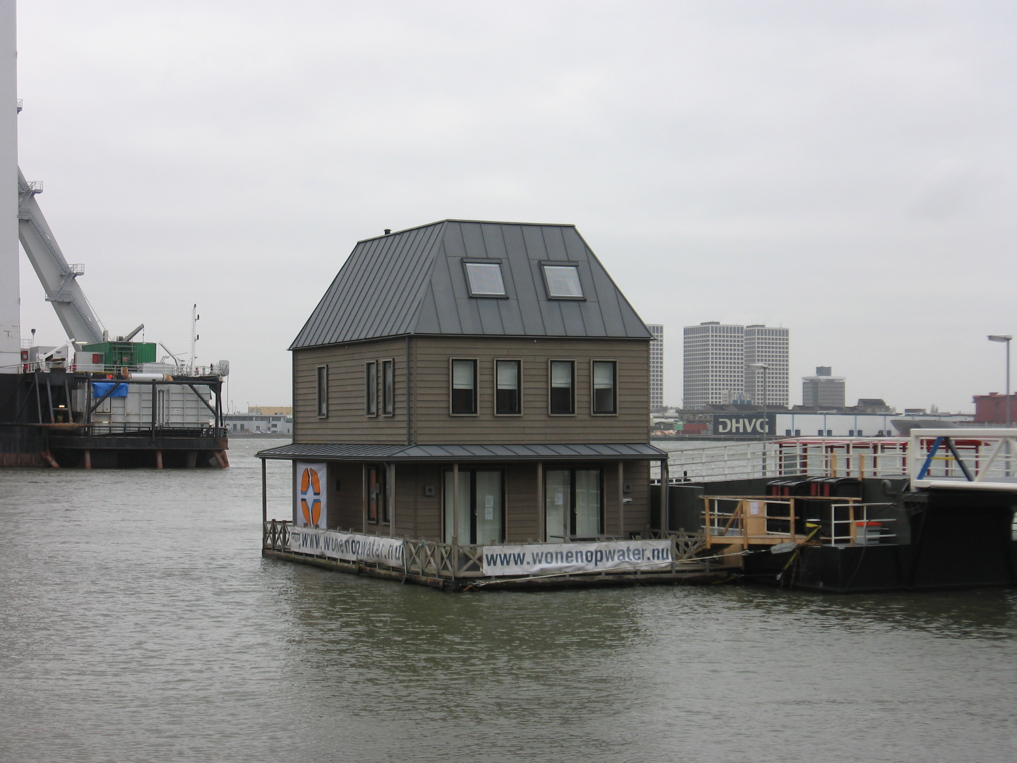 Drijvende woning